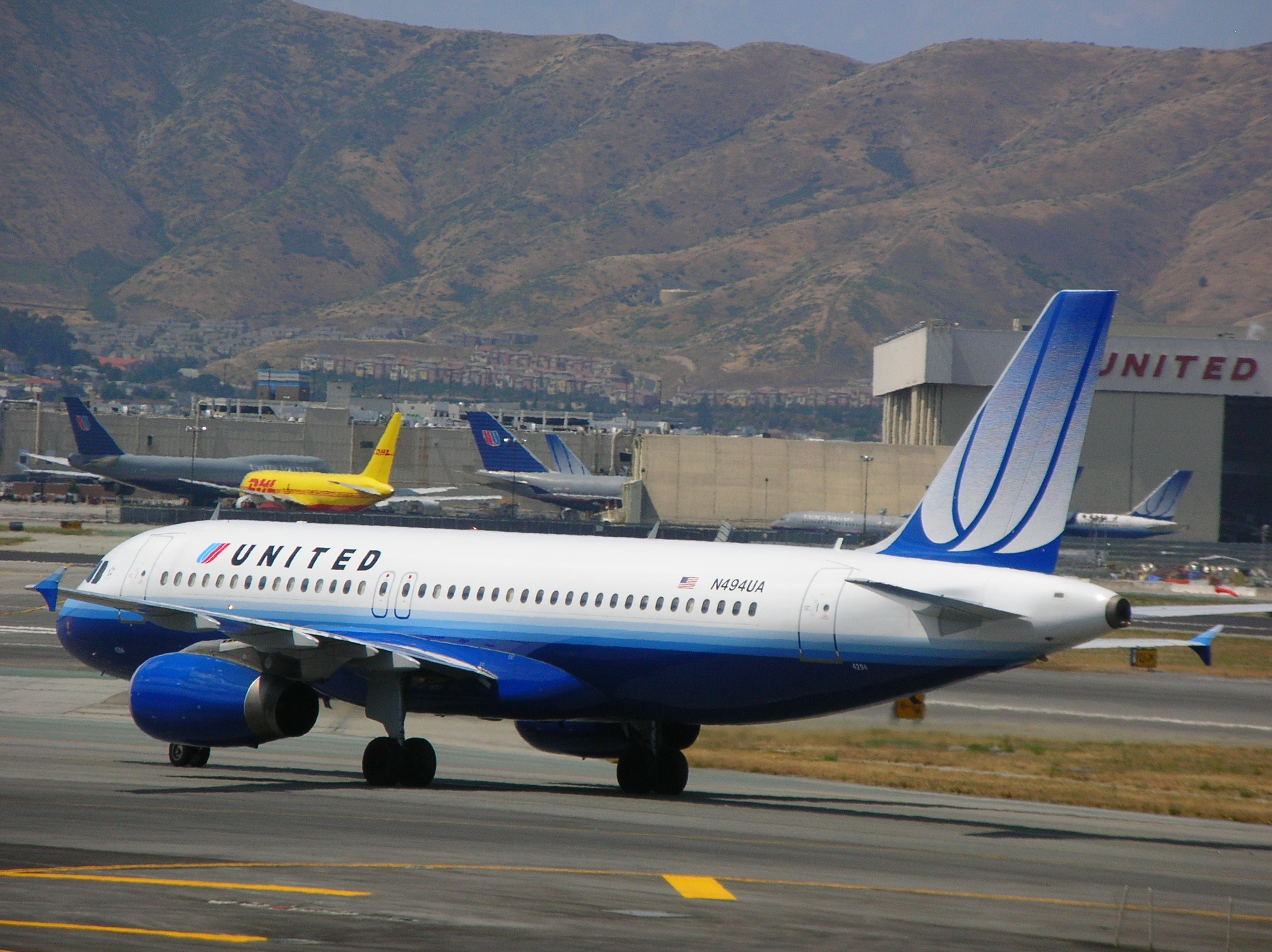 A United Airlines Airbus A320-232, tail number N494UA, taxiing at San Francisco International Airport (SFO).